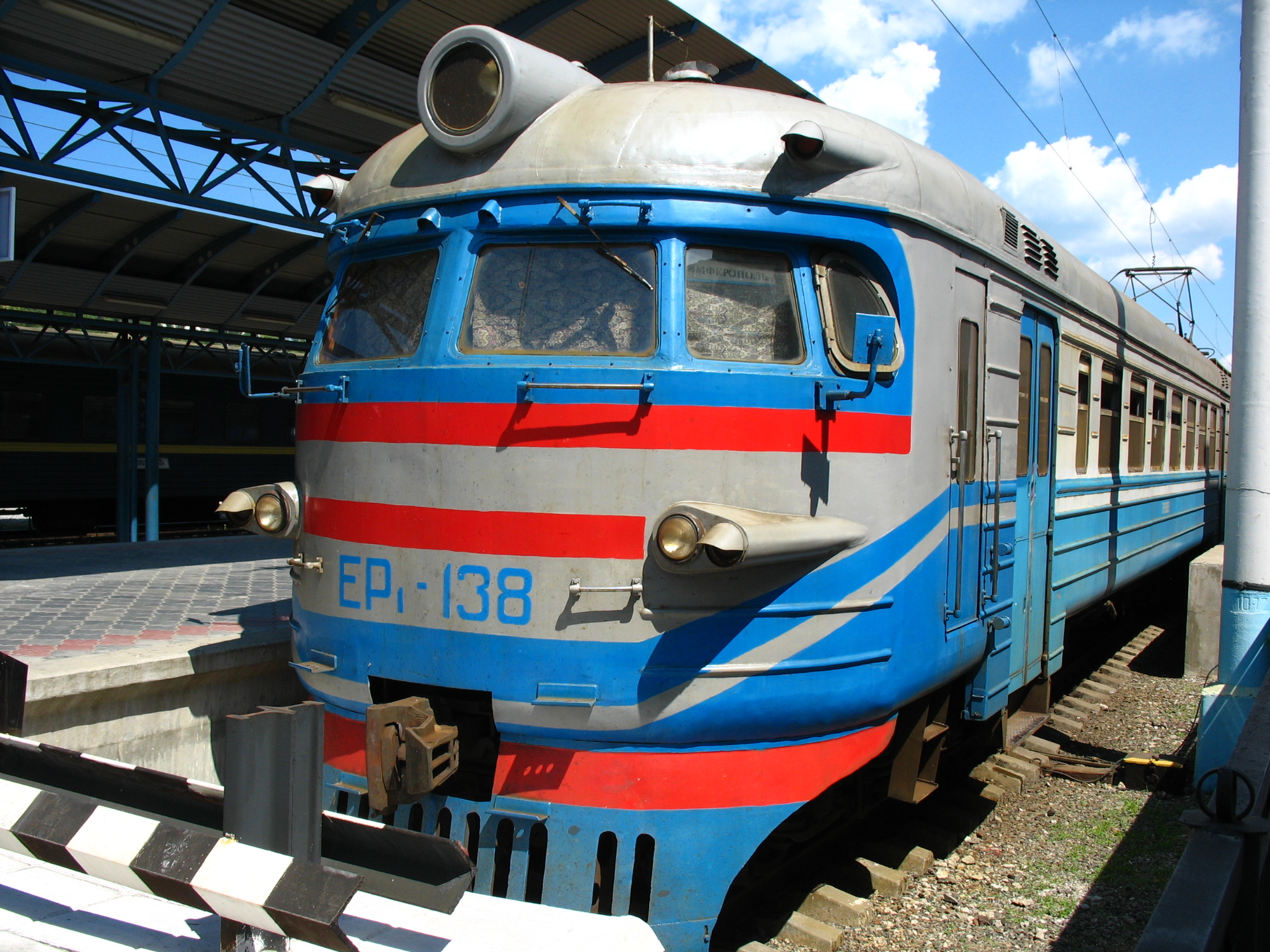 The ER1 Soviet electric trainset is a DC electric multiple unit (EMU). ER1-138 the electric multiple unit was built in 1961.